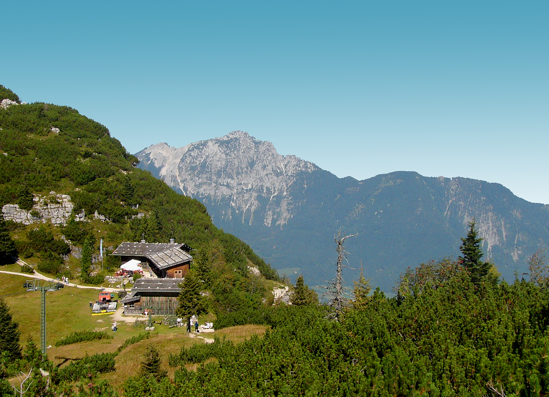 Mount Hochstaufen near Bad Reichenhall in Bavaria, Germany.